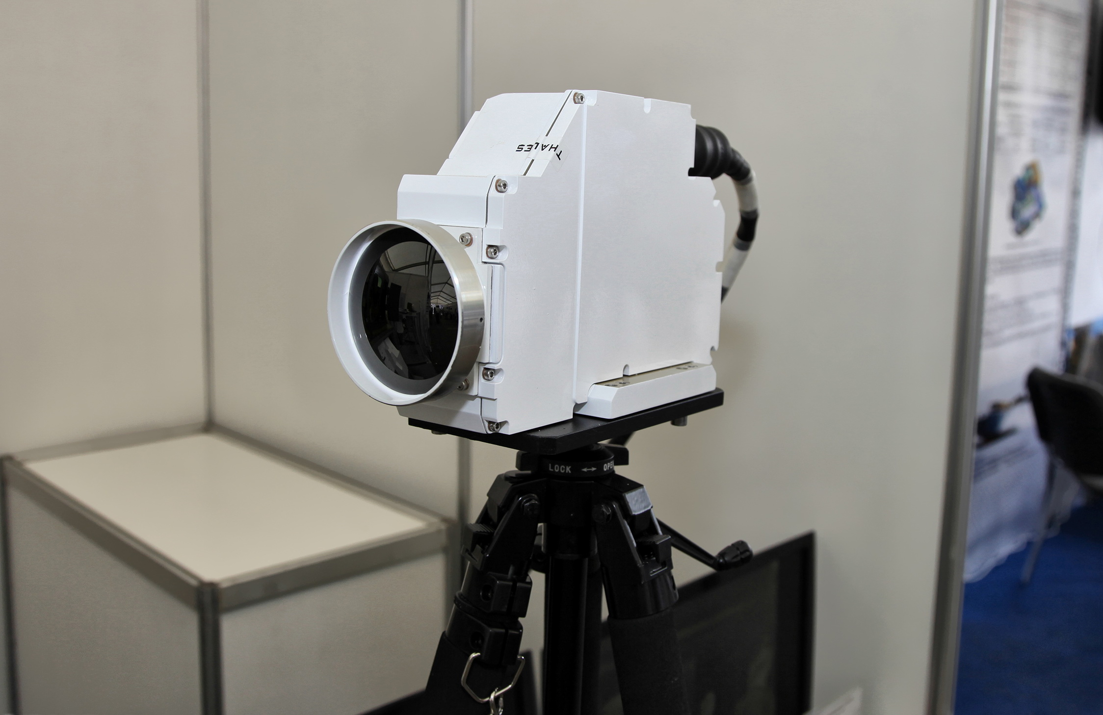 Catherine-FC thermal imaging camera